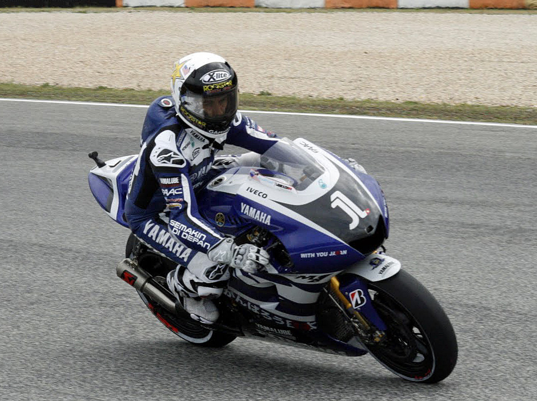 Jorge Lorenzo 2011 Estoril